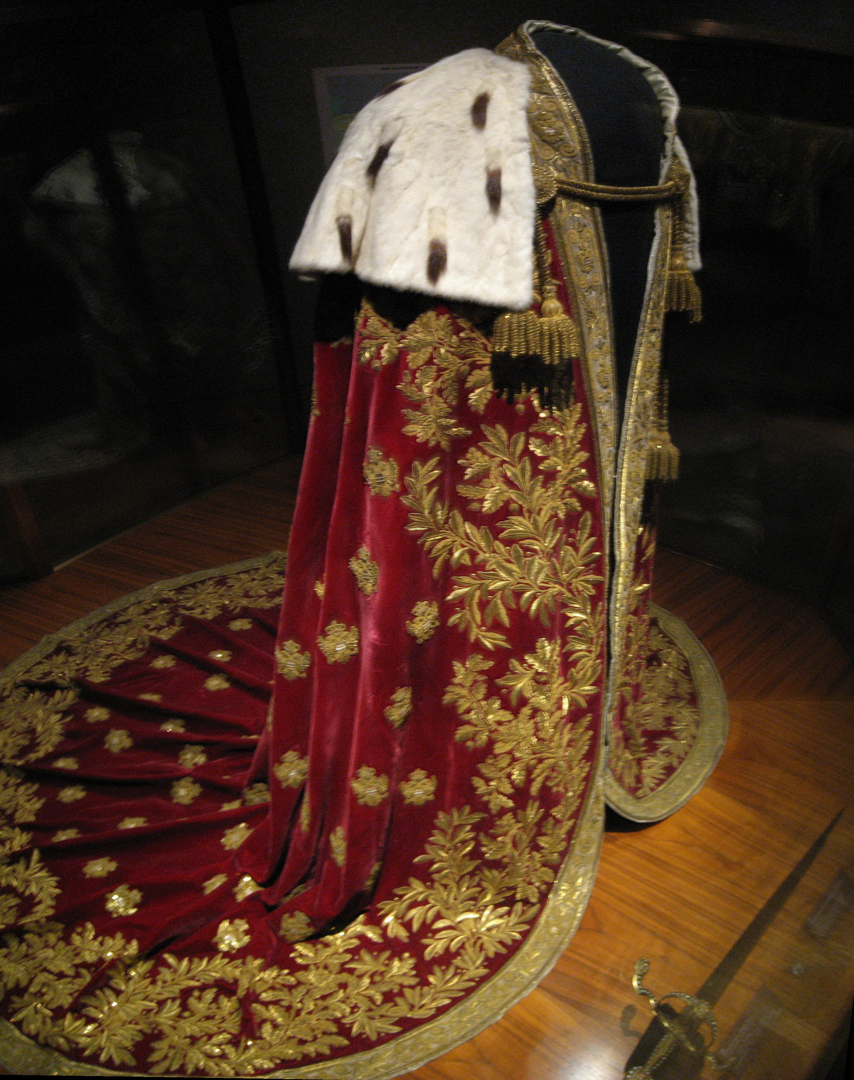 The mantle of the Austrian Empire Design: Philipp von Stubenrauch (1784-1848) Execution: Johann Fritz, Master Gold Embroiderer Vienna, 1830 Red and white velvet, gold embroidery, sequins, ermine, whit silk 276 cm long SK Inv. No. XIV 117